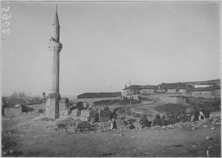 Village of Voshtarani/ Meliti, Greece